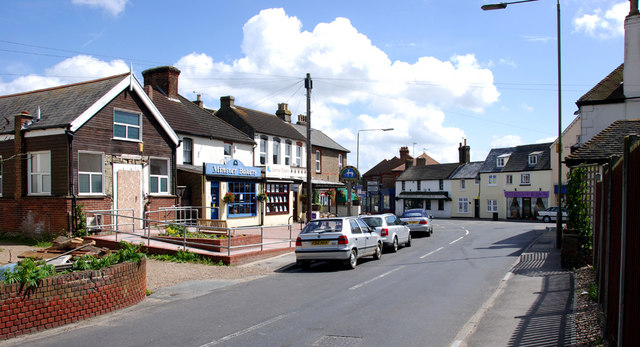 "The Square", Minster, Thanet, Kent The old Salvation Army Hall is on the left and is at present being converted into a SA charity shop.